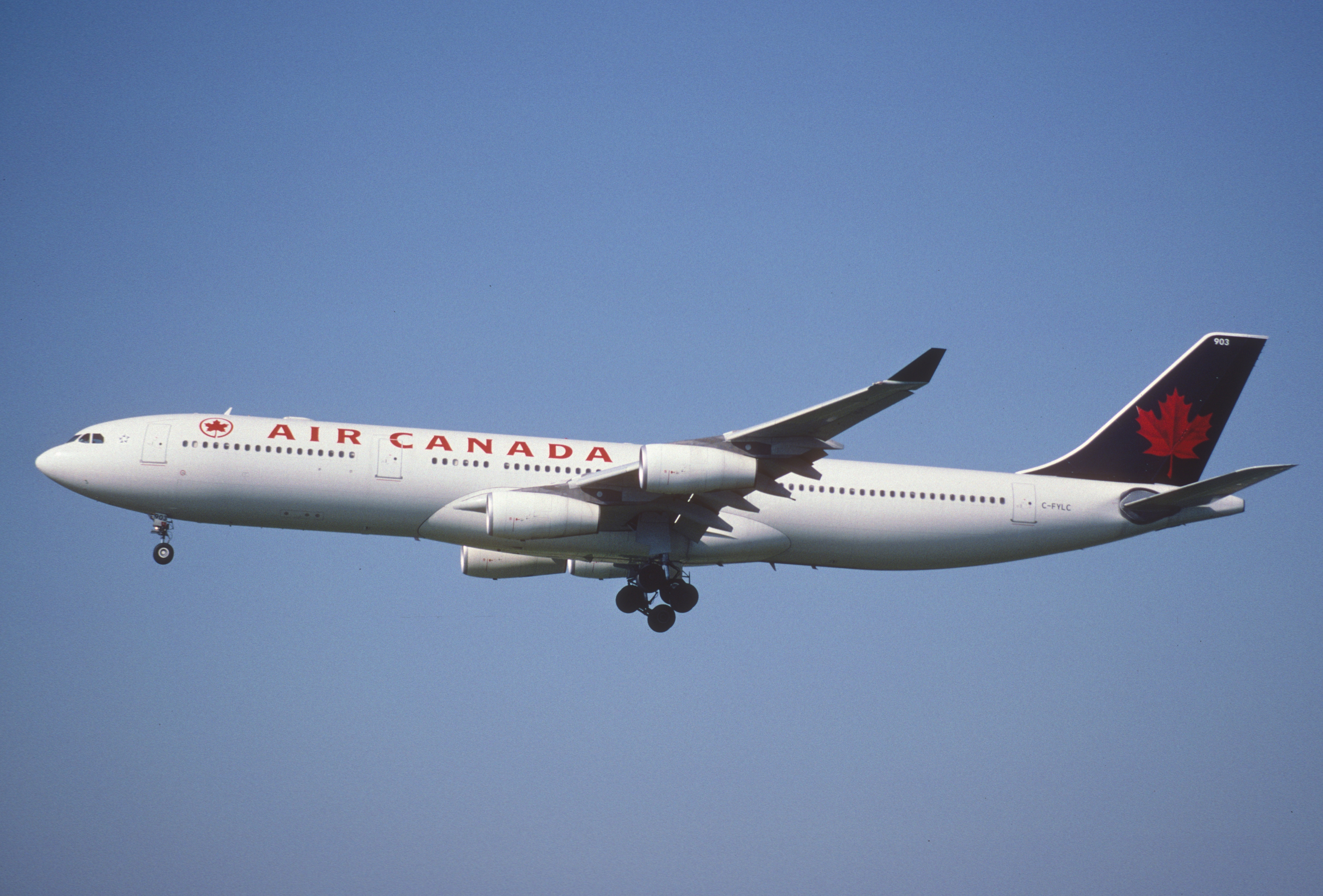 First flight: March 14, 1997...(c/n 167) 27/03/1997 Air Canada C-FYLC 06/07/2007 LAN Airlines CC-CQG